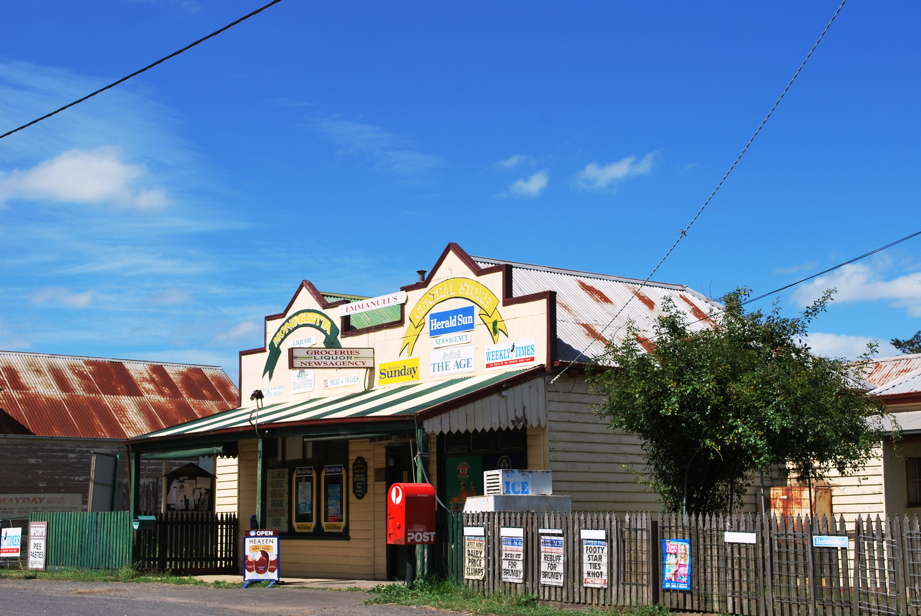 General store at Monegeetta, Victoria